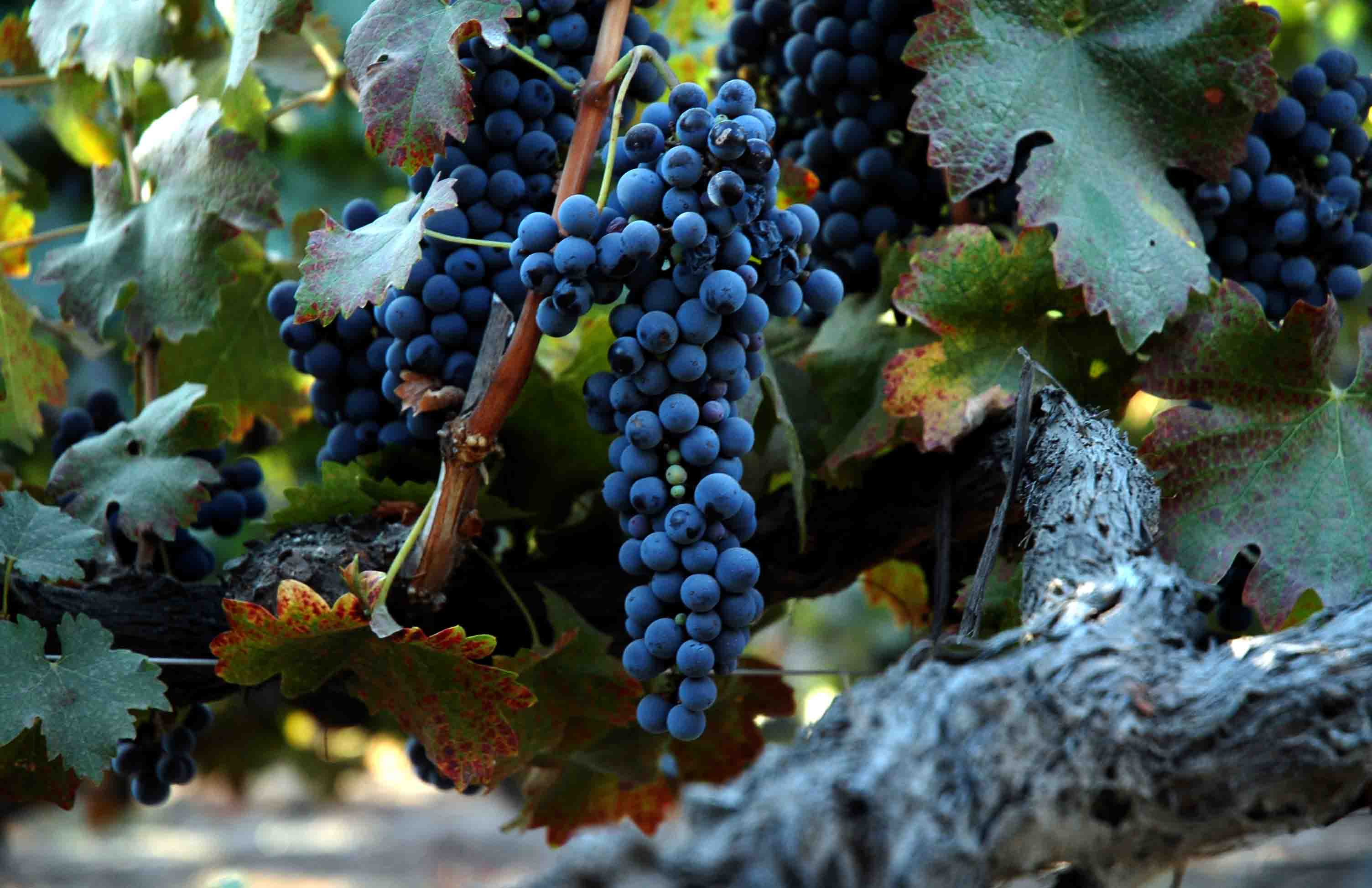 Grapes of a 80-year-old Shiraz grapevine.